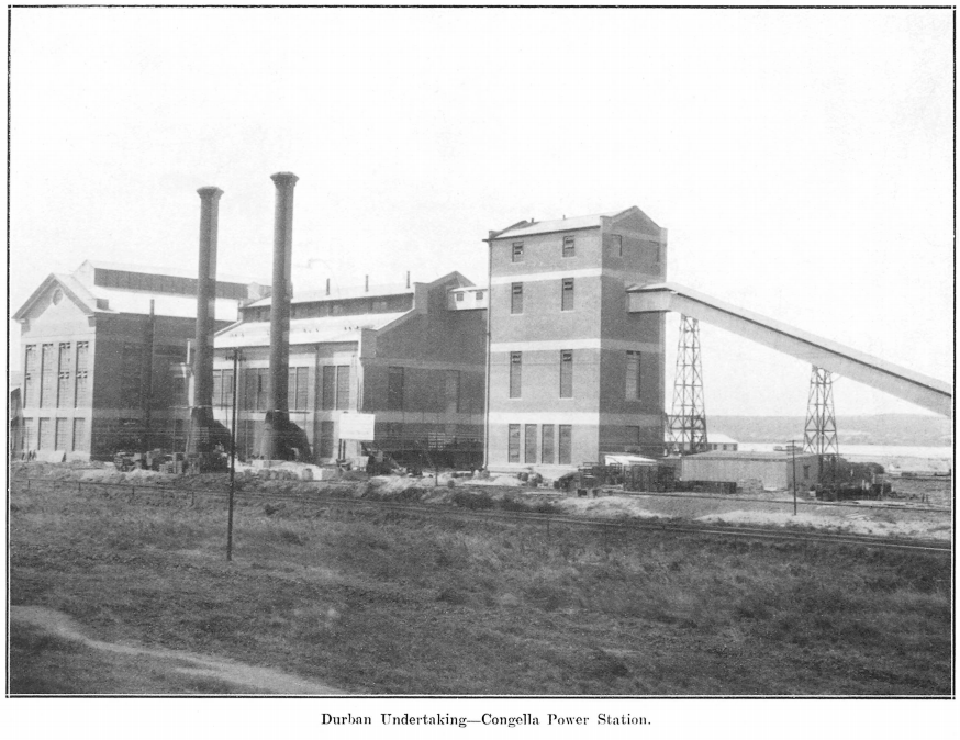 The Eskom owned Congella Power Station in Durban, South Africa.